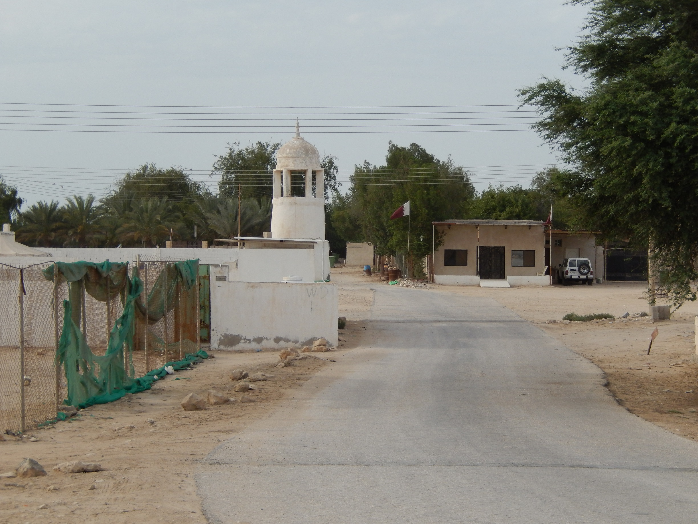 The center of the village of Zekreet (Bir Zekrit), with small mosque, western Qatar.